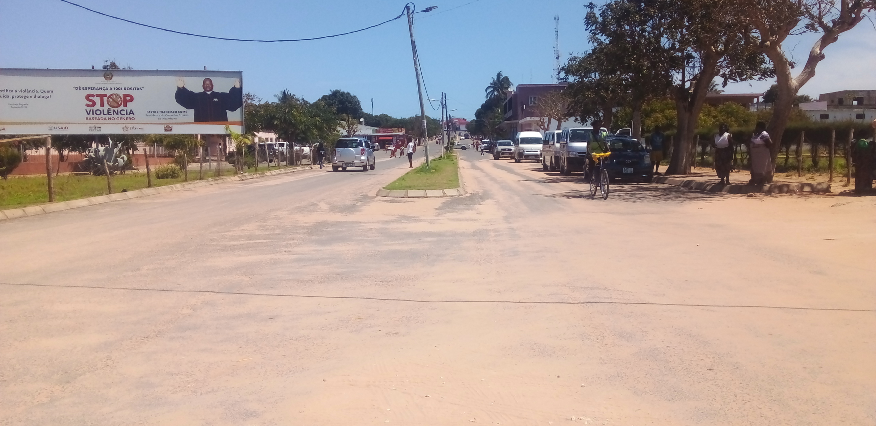 Main street of Massinga, Mozambique